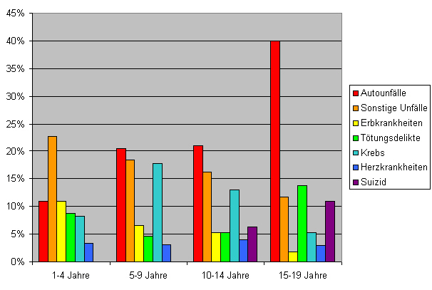 chart: most frequent causes of death with US-children 1-19 years; source of data: Leading Causes of Death – Infant; Toddler; Kids; Younger Teens; Older Teens